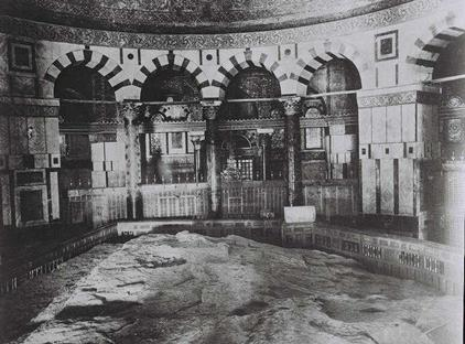 INSIDE THE DOME OF THE ROCK (MOSQUE OMAR) ON THE TEMPLE MOUNT IN JERUSALEM. (COURTESY OF AMERICAN COLONY).